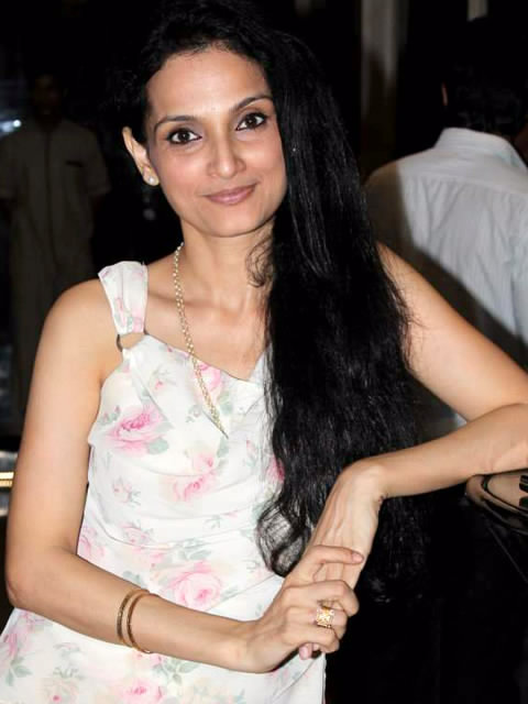 Rajeshwari Sachdev at Comedy Circus 300 episodes bash